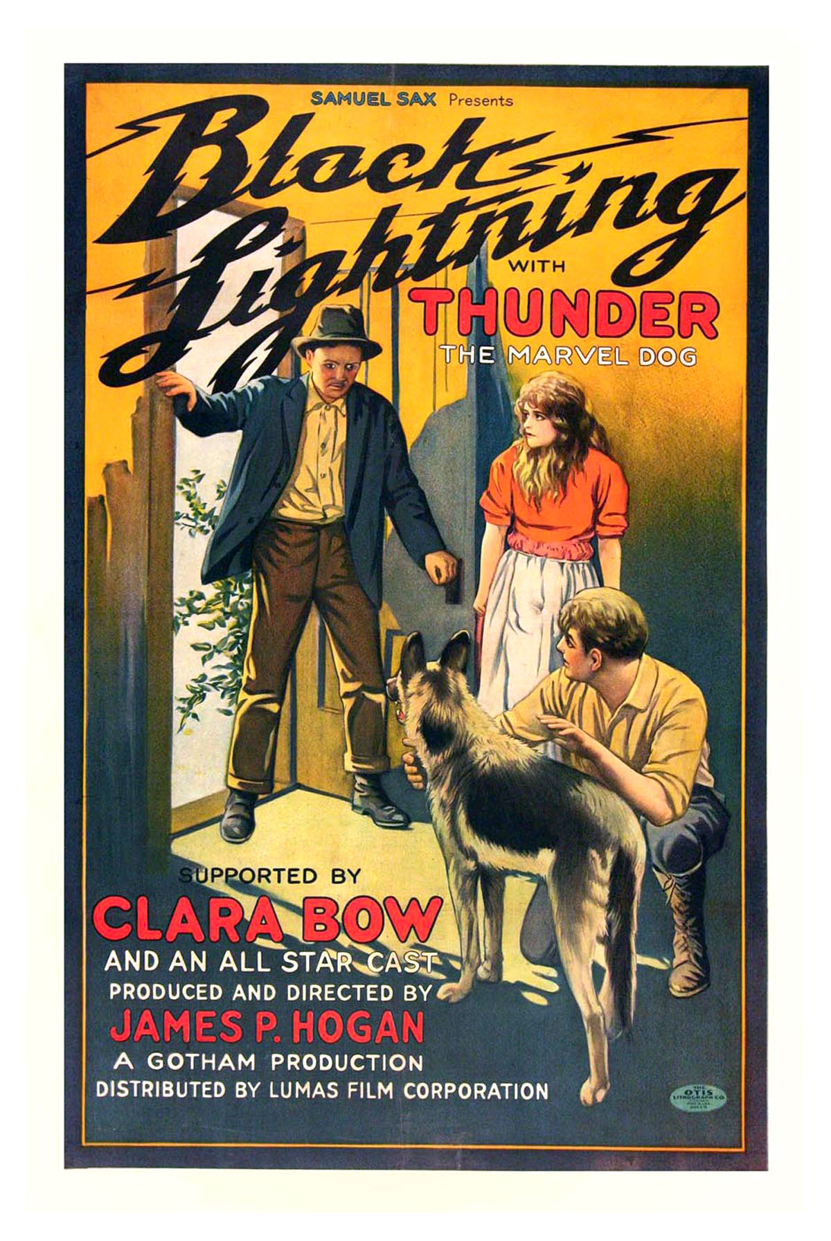 Movie poster for the 1924 film Black Lightning with Clara Bow.